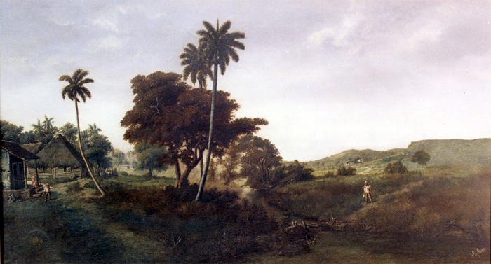 Painting by Spanish-Cuban painter, Miguel Arias Bardou (1841 -1915).